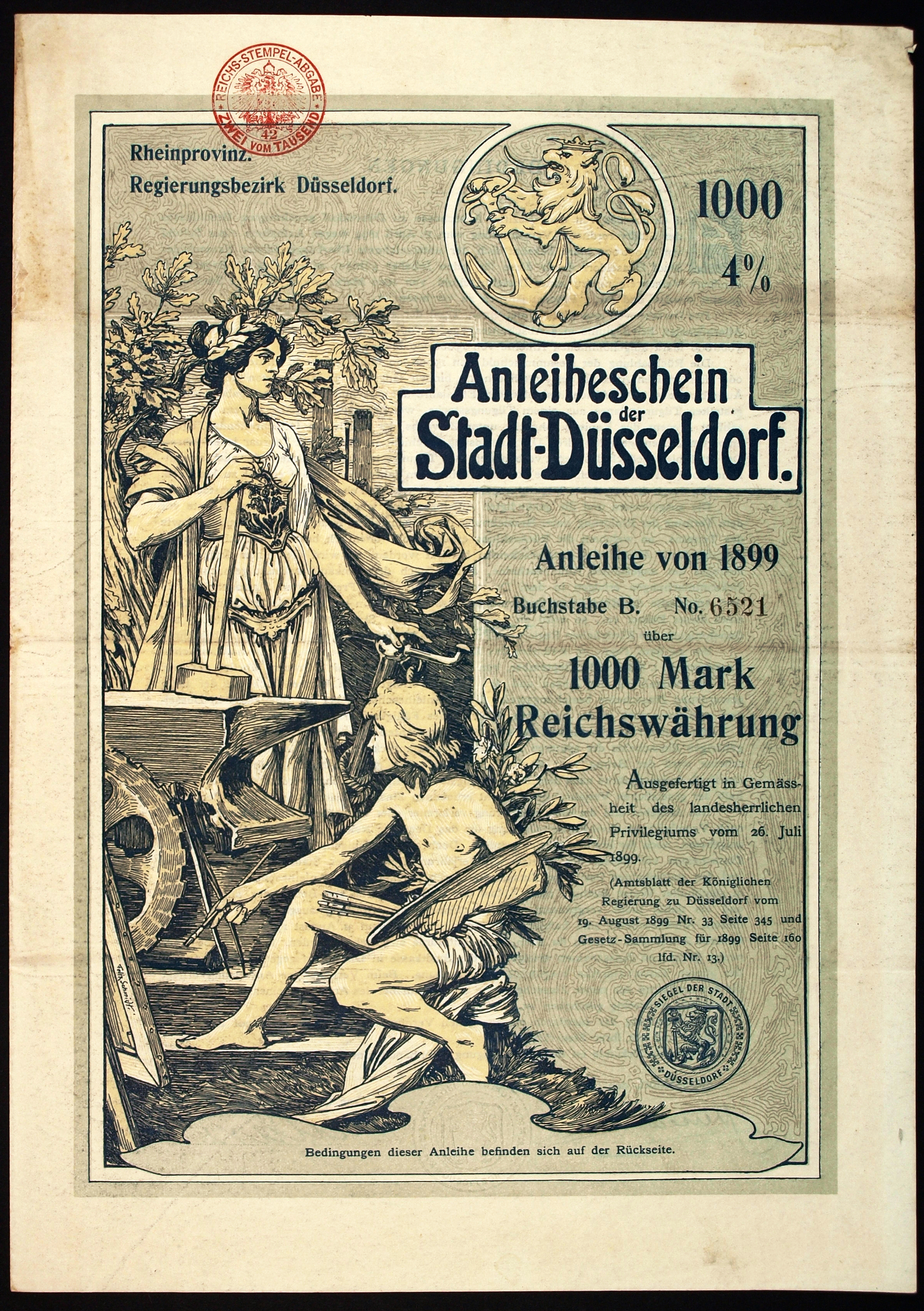 Anleihe über 1000 Mark der Stadt Düsseldorf vom 26. Juli 1899